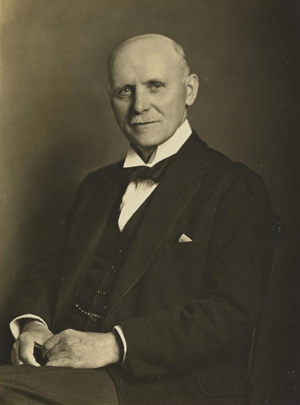 Photographic portrait of Colonel David Carnegie by Edward Drummond Young. No date given, but definitely before photographer's death in 1946.